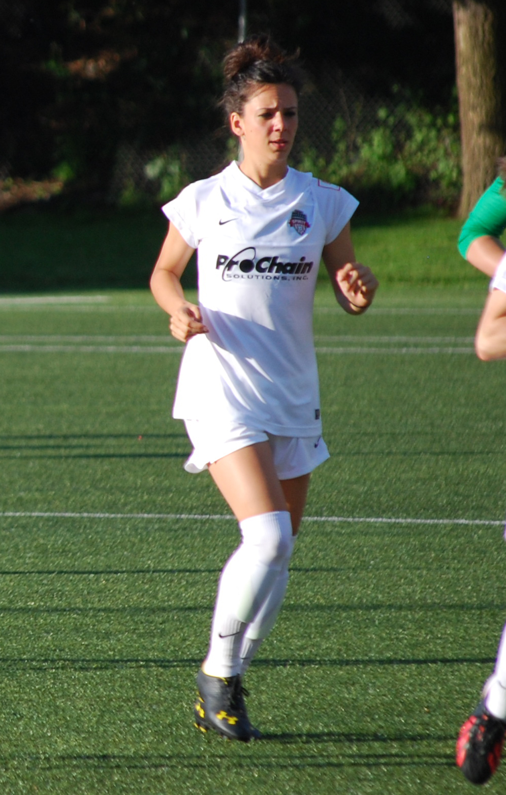 Washington Spirit defender Domenica Hodak during a match against Seattle Reign FC on May 16, 2013 at Starfire Stadium in Tukwila, Washington.